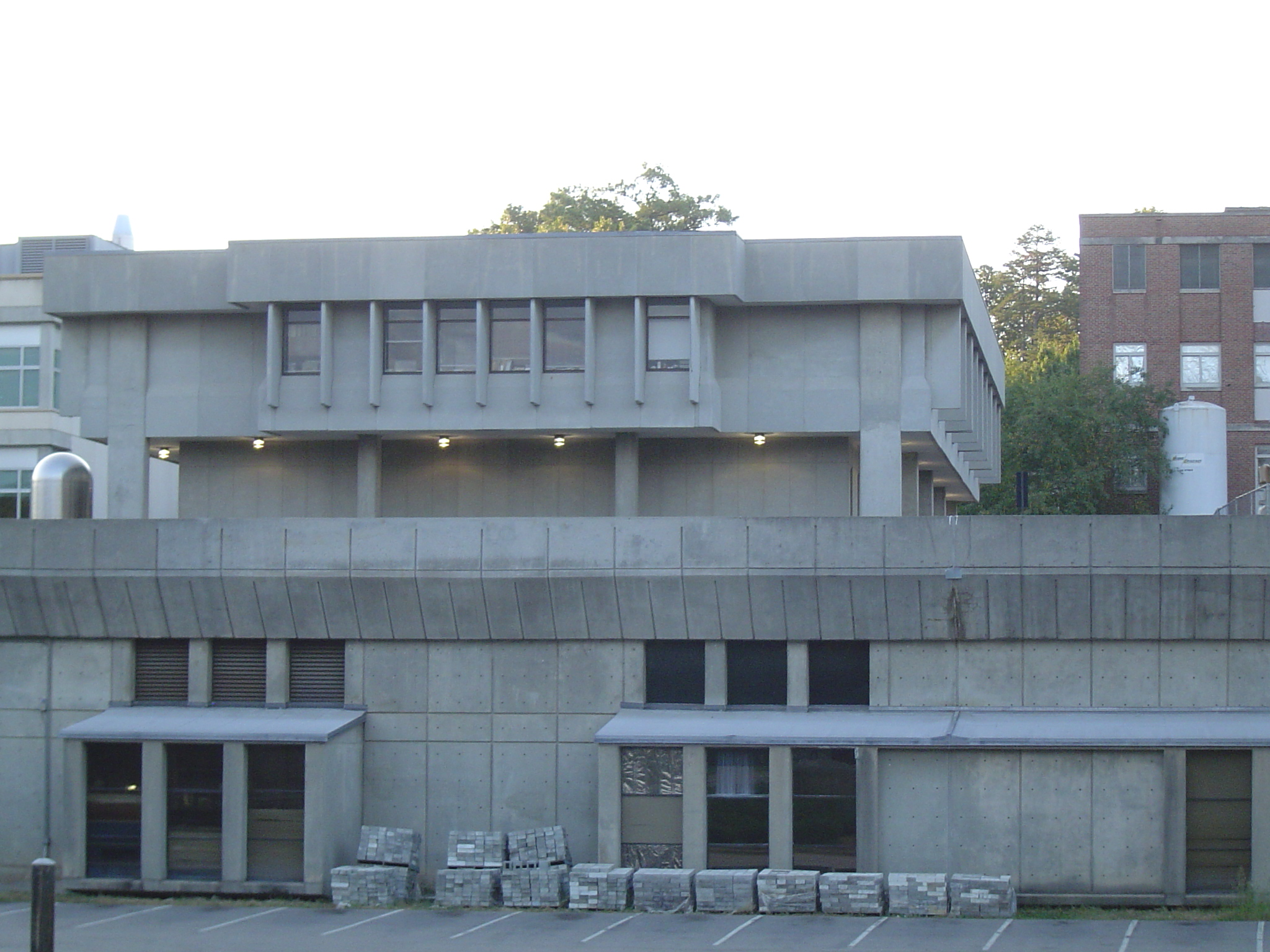 TUNL viewed from behind, showing the lab level obscured from above